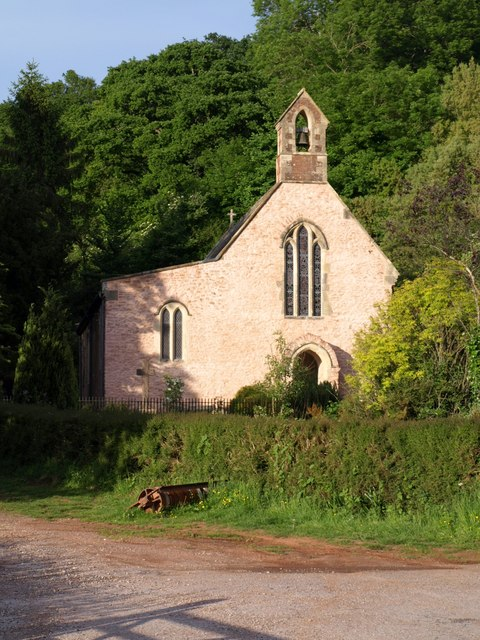 St Blaise, Haccombe A singular church, perhaps of as much interest as any other of its size, and possibly dating from 1233, certainly the C13. "The Rector of the church holds the rare title of Archpriest – a privilege founded in medieval times and ratified in 1913 by King George V. This entitles him to wear lawn sleeves, like a bishop, and a fur stole, or amyss." (The more usual spelling would be "amice"). This title reflects the fact that the Archpriest has the right to sit beside the Bishop at ceremonies, and recognises no authority lower than the Archbishop of Canterbury. Reverend William Keble Martin, the artist of Concise British Flora fame, held the position of Archpriest here from 1921 to 1934. The church was praised by the Prayer Book Society in March 2008 for using only the 1662 Book of Common Prayer. The bell, dating from 1290, may be the oldest in Devon, and there are several remarkable monuments.